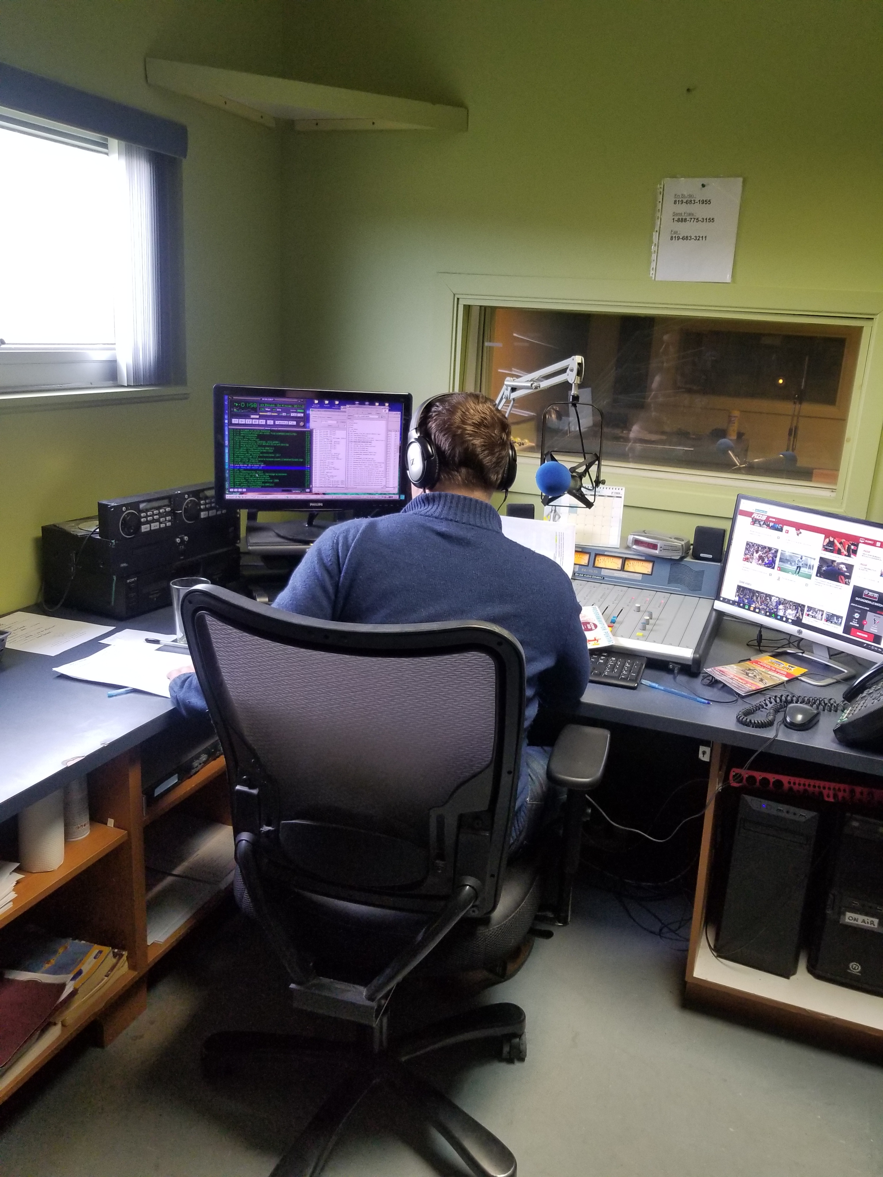 Studio de CHIP 101,9, radio communautaire de Pontiac